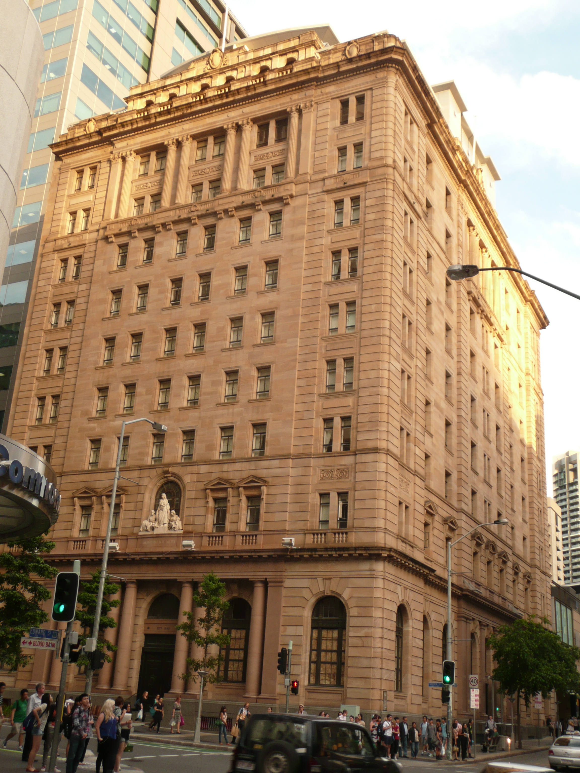 MacArthur Central, Queen Street and Edward Street façades